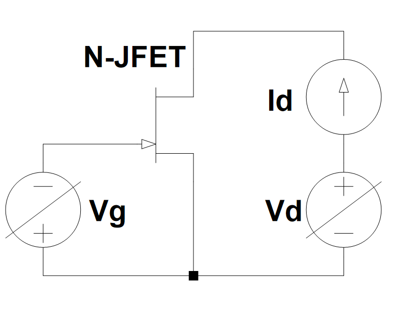 Setup for measuement of a transistor